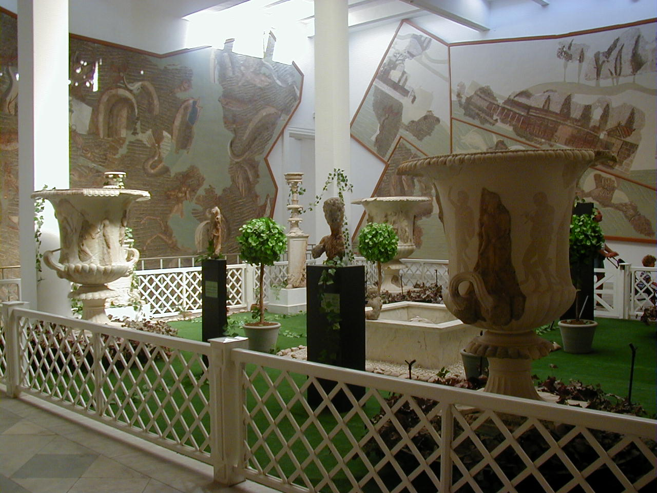 Bardo National Museum.